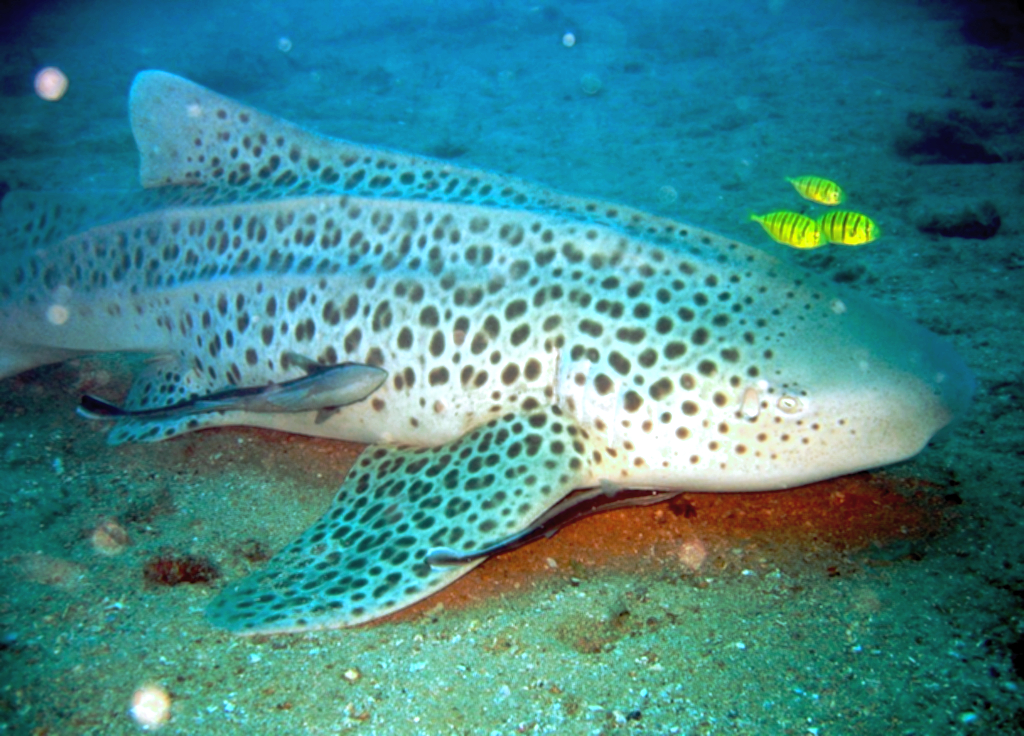 A Leopard Shark (Stegostoma fasciatum) with attendant Slender Suckerfish (Echeneis naucrates) and juvenile Golden Trevally (Gnathanodon speciosus). Yongala Wreck, Great Barrier Reef